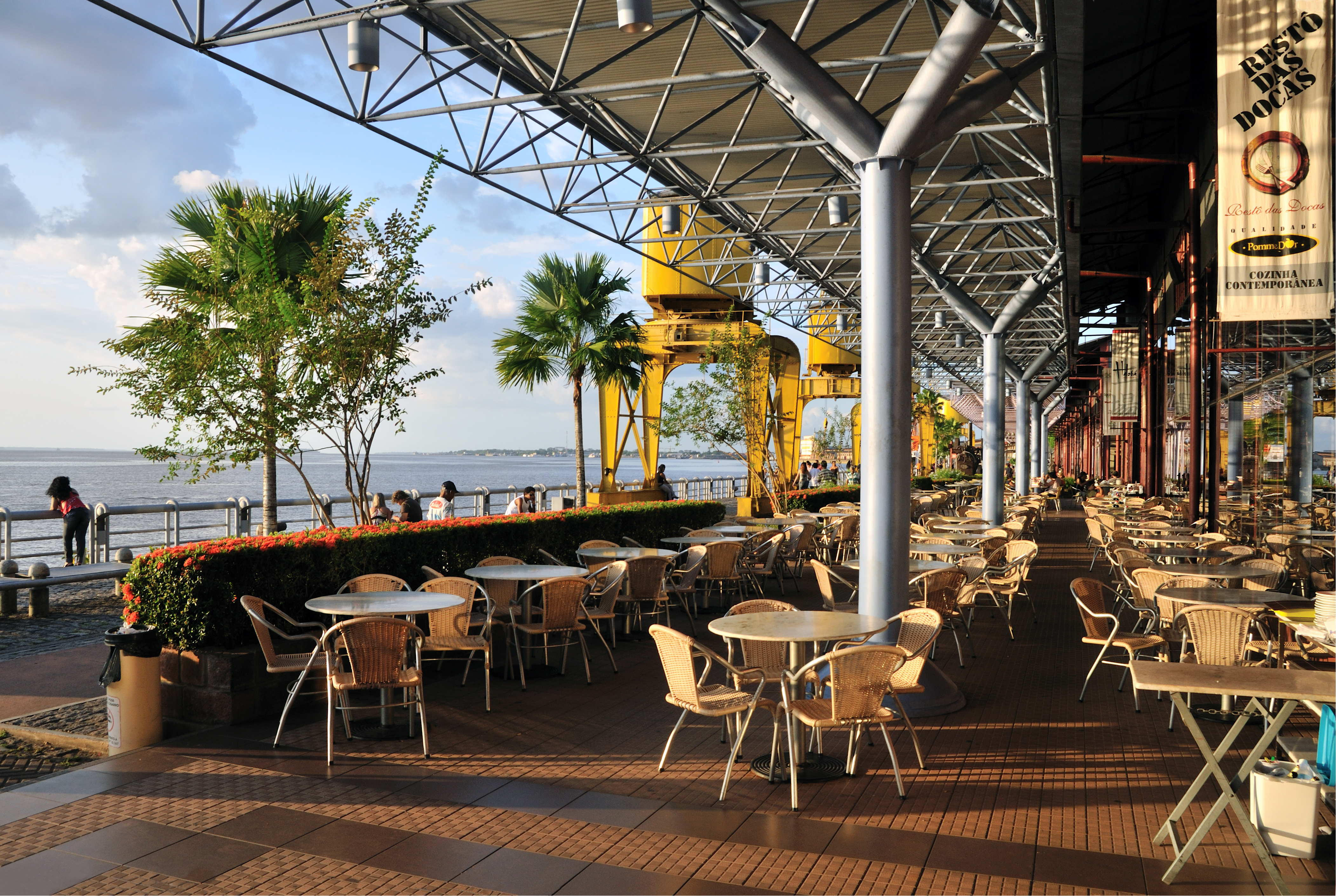 Las Docas in Belém, Brazil: restored ancient docks, presently with bars, restaurants and shops. Las Docas are located on the banks of the bay of the Guajará river.